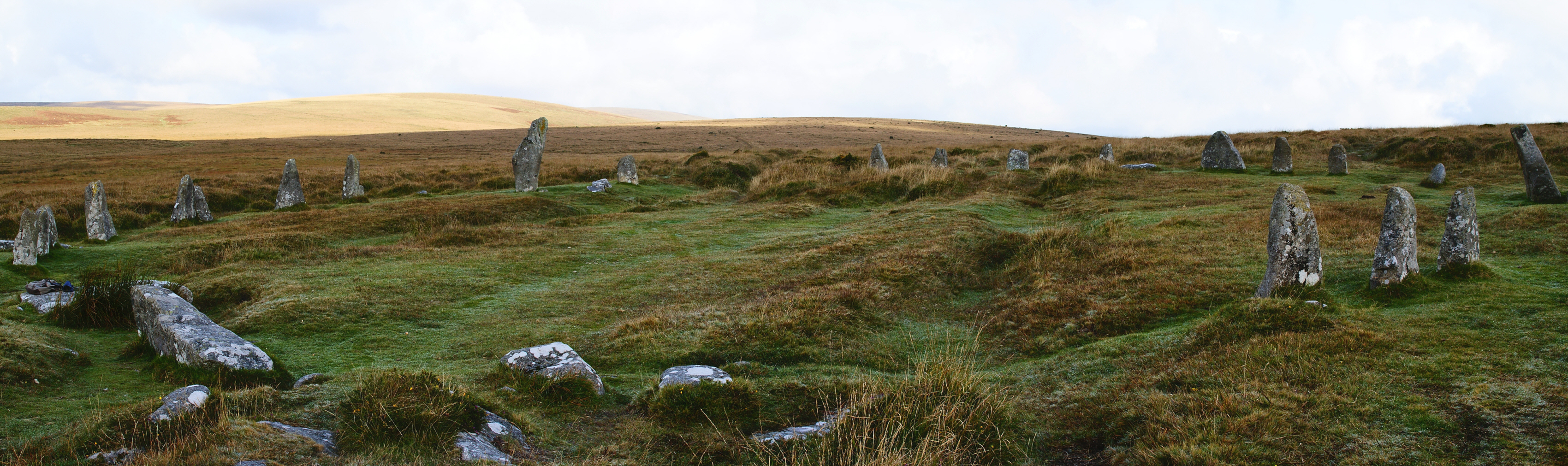 Scorhill circle on northern Dartmoor, UK. There are a number of ancient stone circles on the moors however this one is quite easily accessible.